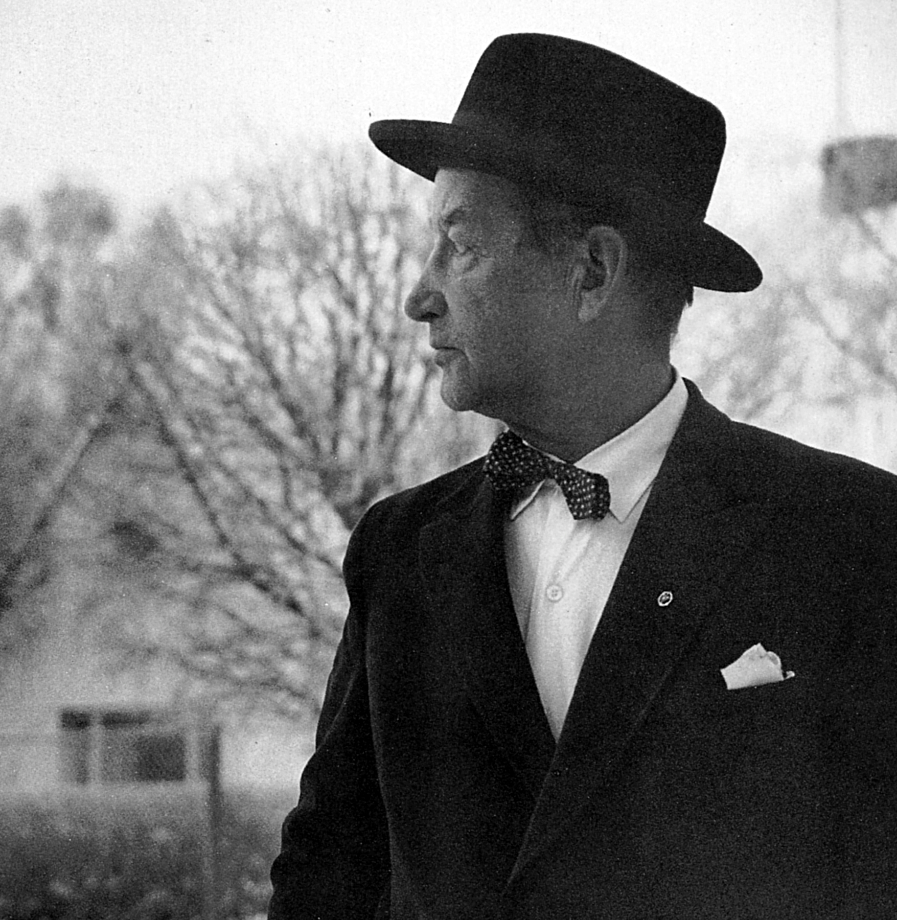 Manager of the Koskenkorva distillery 1940–1968 in Ilmajoki, Finland. Picture taken in the early 1960s.